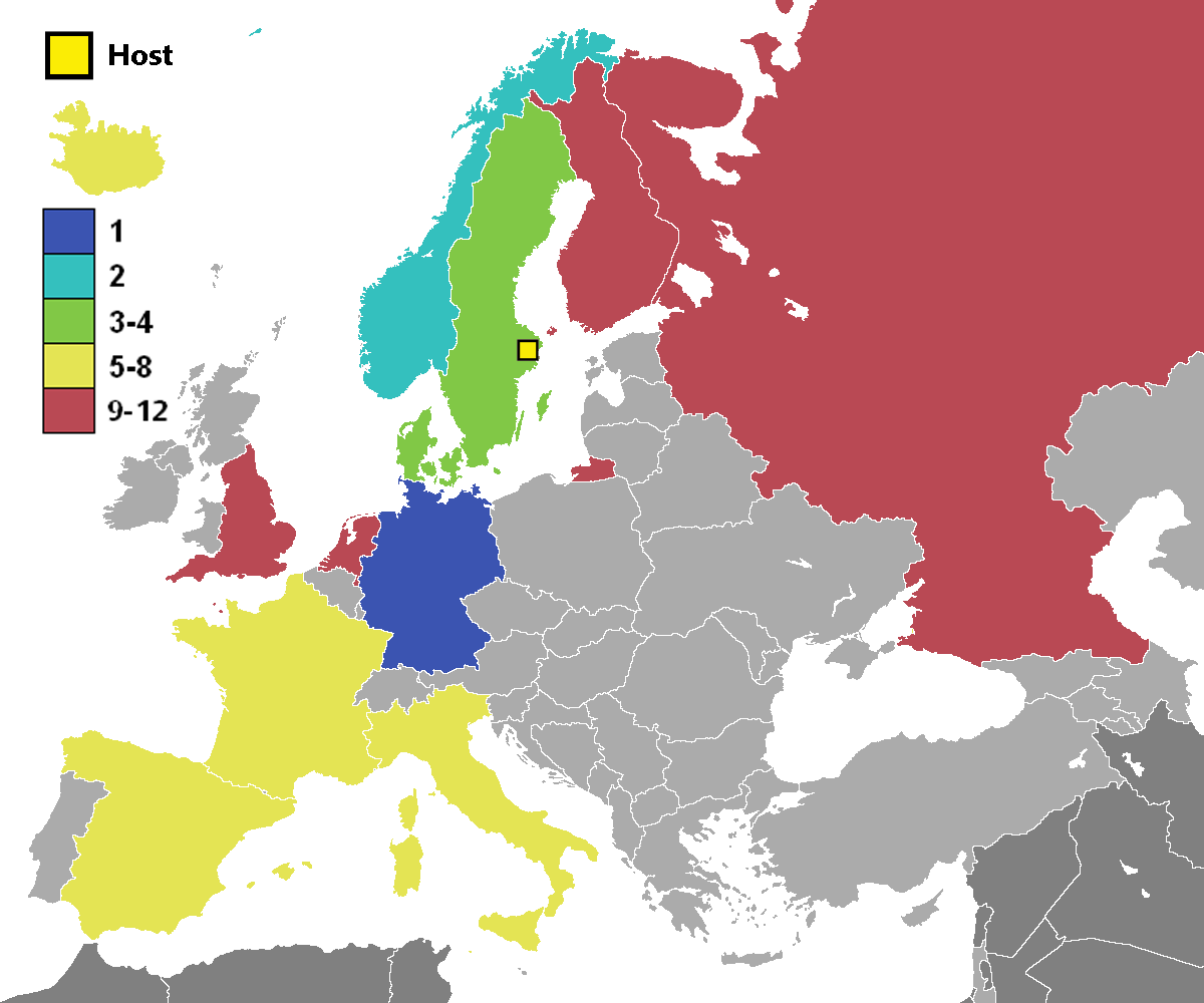 Participants of UEFA 2013 Championship for women